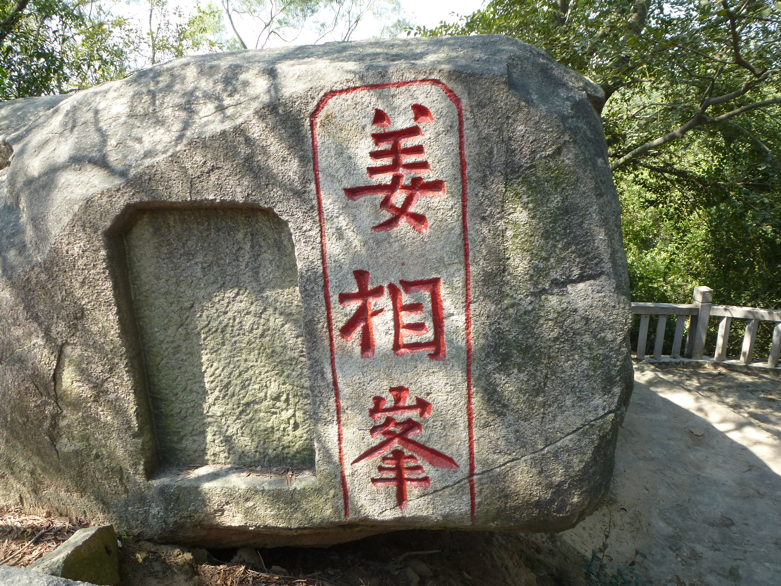 Jiuri Mountain